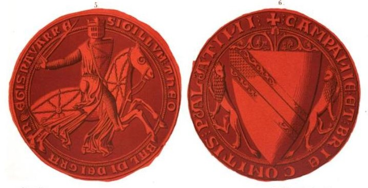 Theobald II of Navarre